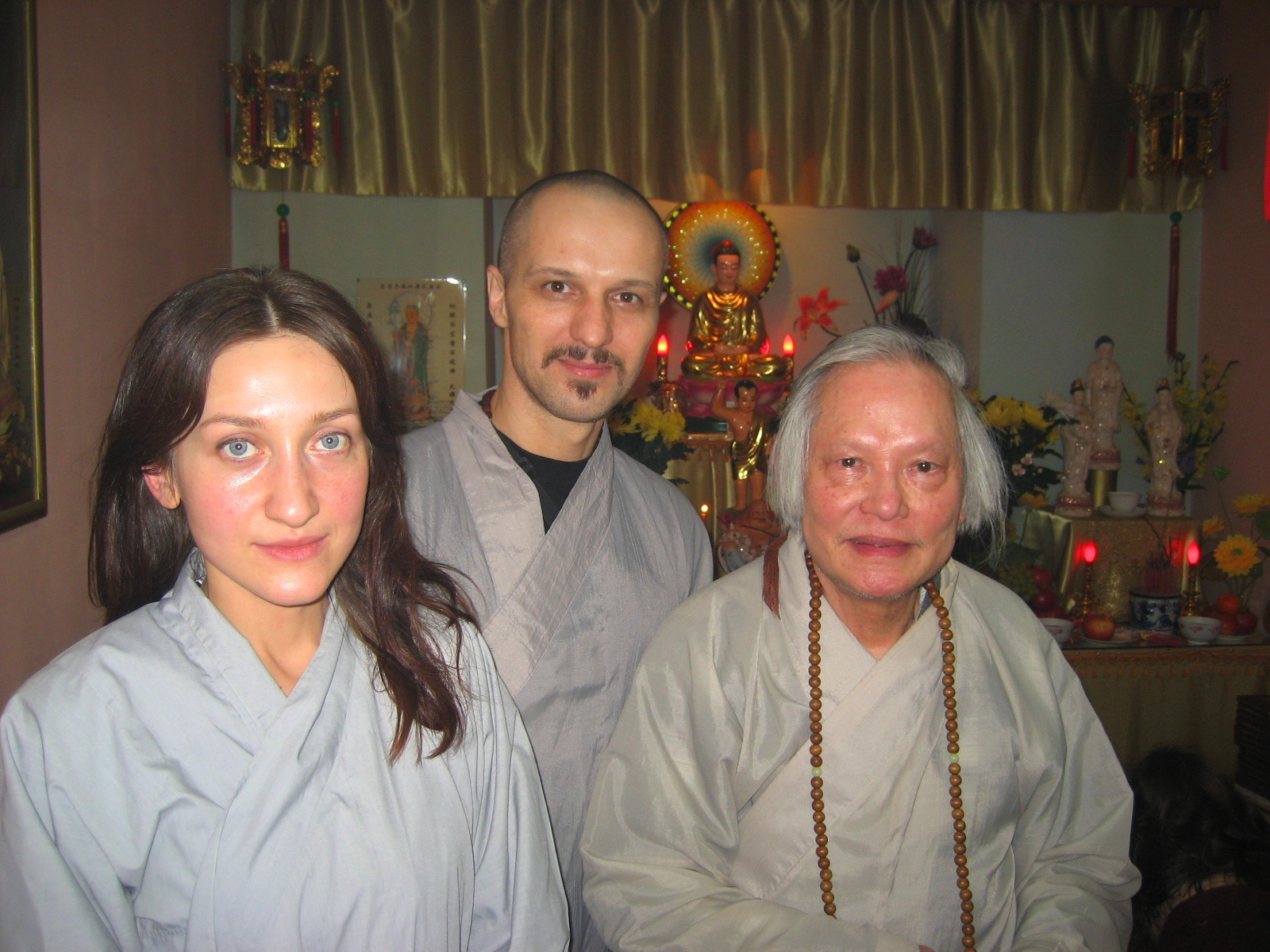 From right to left: Thien Man, Thien Duyen, Dien Lingh.